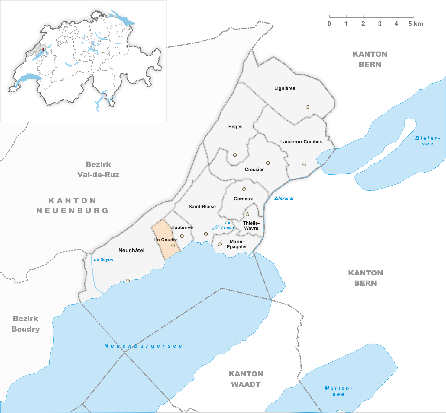 Municipality La Coudre Artist: Tschubby